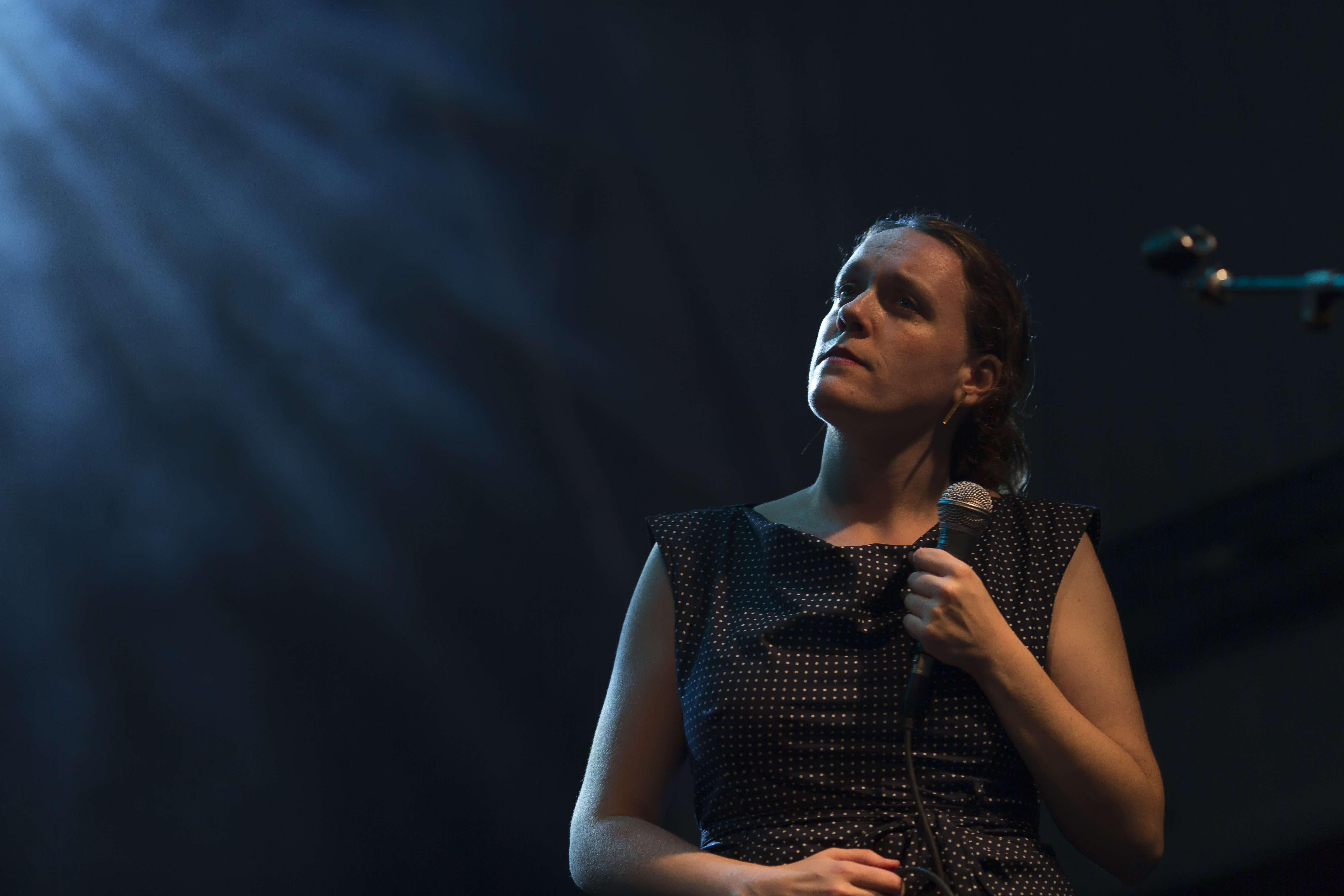 March 7, 2015